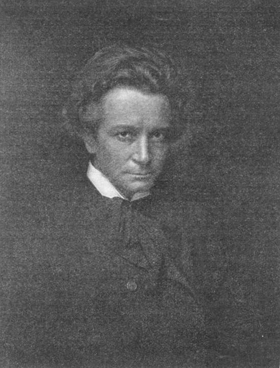 Self portrait photo of Ernest Walter Histed